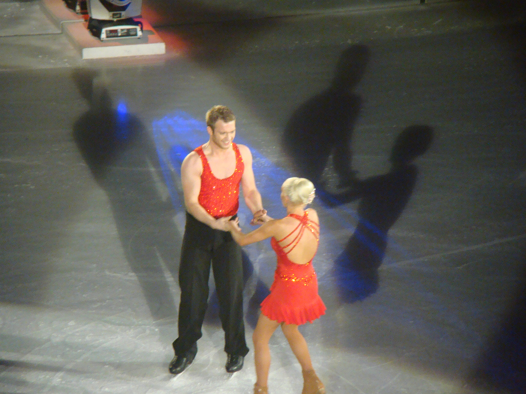 Chris Fountain & Brianne Delcourt